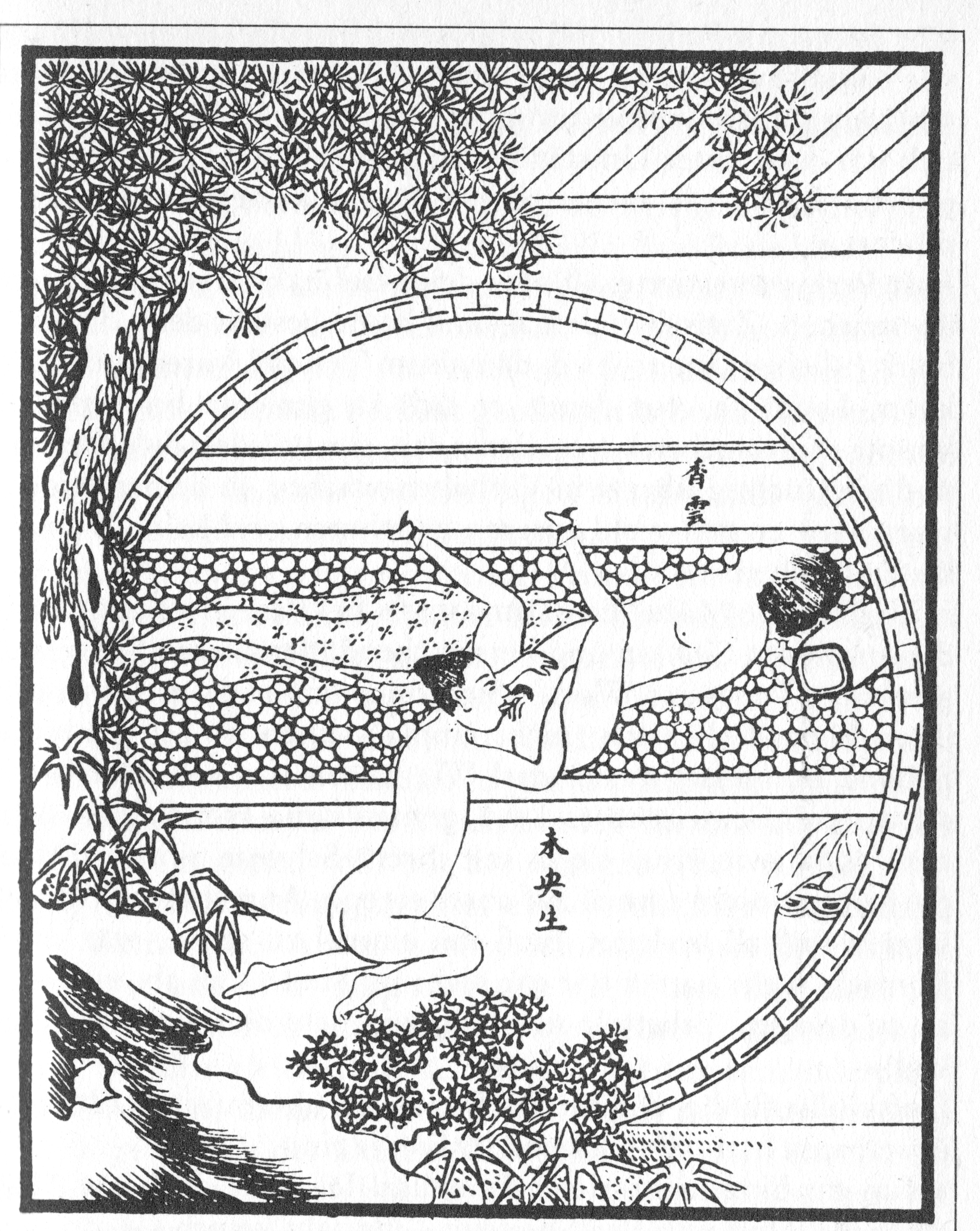 woodcut to 1894 edition of Rouputuan